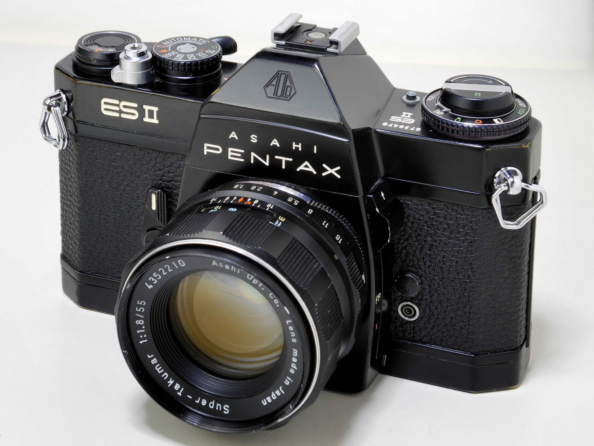 Pentax ESII w/55mm f/1.8